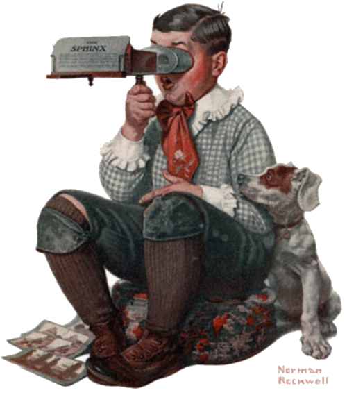 Boy looking at stereograph of the Sphinx, using a Holmes stereoscope. Cover of January 14, 1922 edition of the Saturday Evening Post.